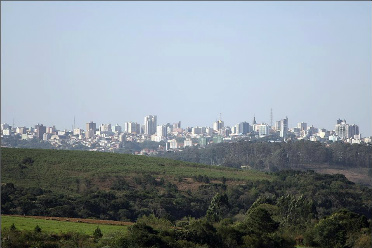 This is a view of Ponta Grossa, took by the fields of the city, the Princess of the Fields